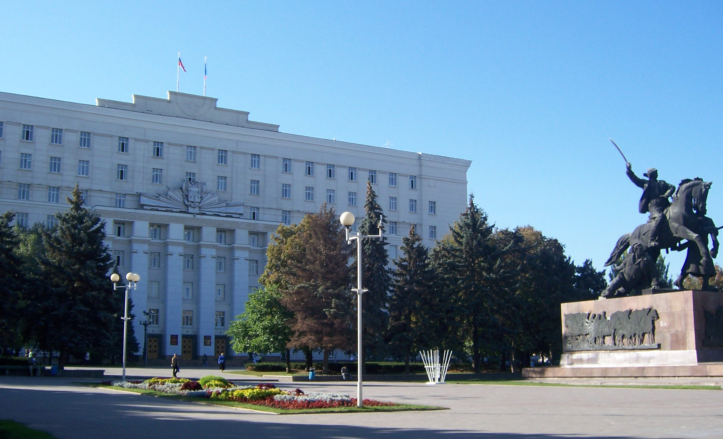 Regional Administration of Rostov on Don